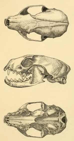 Beech marten skull